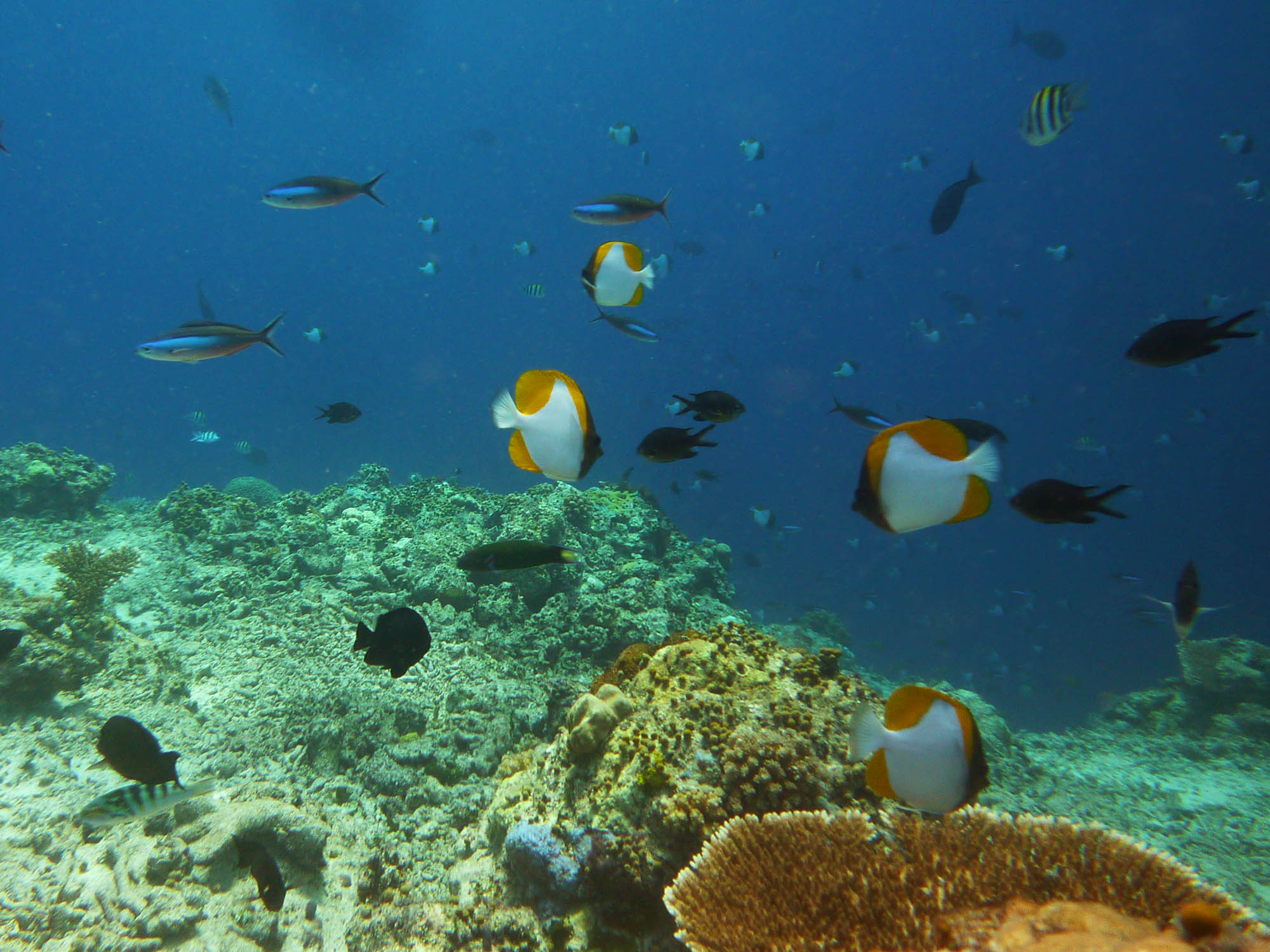 Hemitaurichthys polylepis in Maratua, Derawan archipielago, East Kalimantan, Borneo, Indonesia.